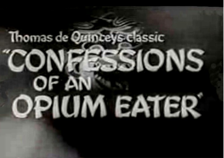 Cropped screenshot from the film trailer Confessions of an Opium Eater (film).